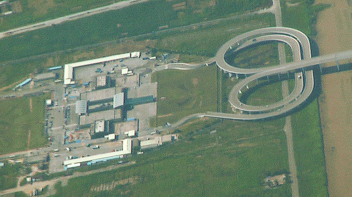 The Lotus Bridge, linking Macau with mainland China, showing the switchover necessary for traffic crossing the border between Macau (left-hand traffic) and China (right-hand traffic). Taken from a commercial airliner.